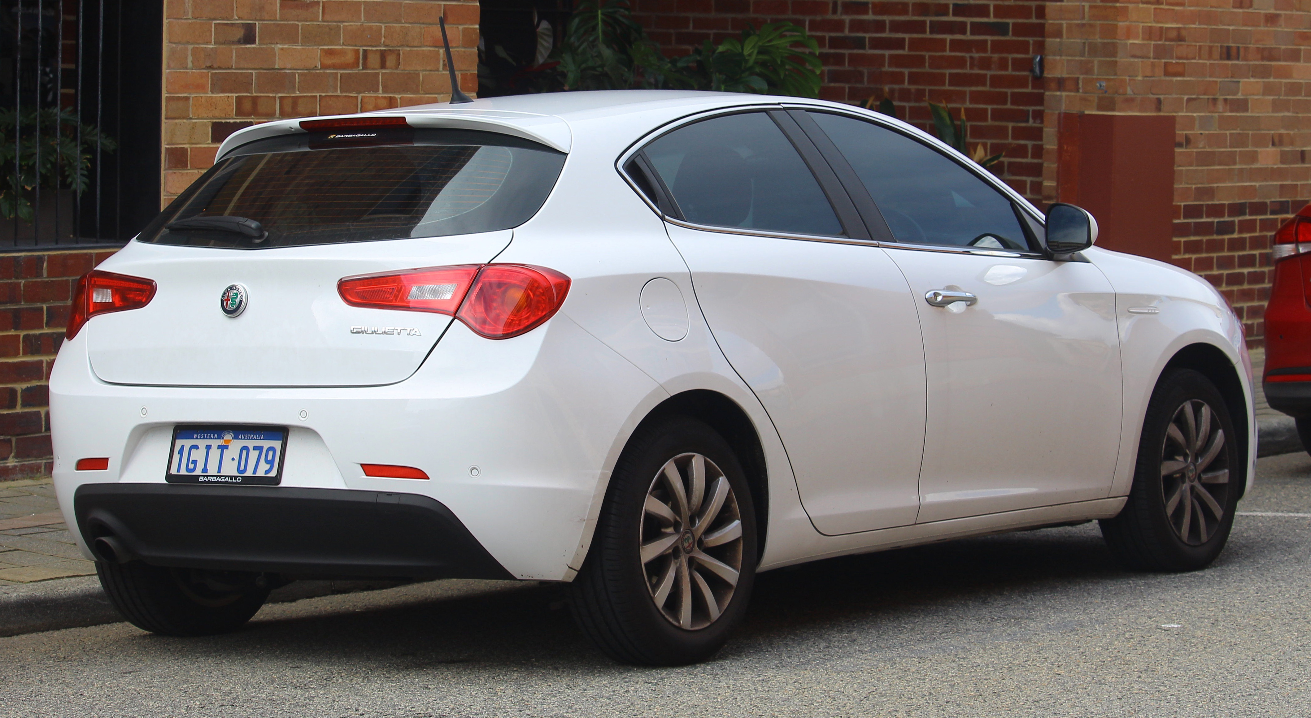 2017 Alfa Romeo Giulietta (940 Series 2) Super hatchback. Photographed in Fremantle, Western Australia, Australia.